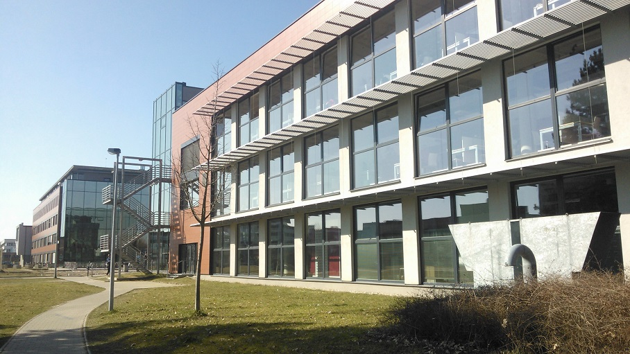 University of South Bohemia in České Budějovice - the Academic Library with the building of the rector's office and the Faculty of Philolosphy at the back.